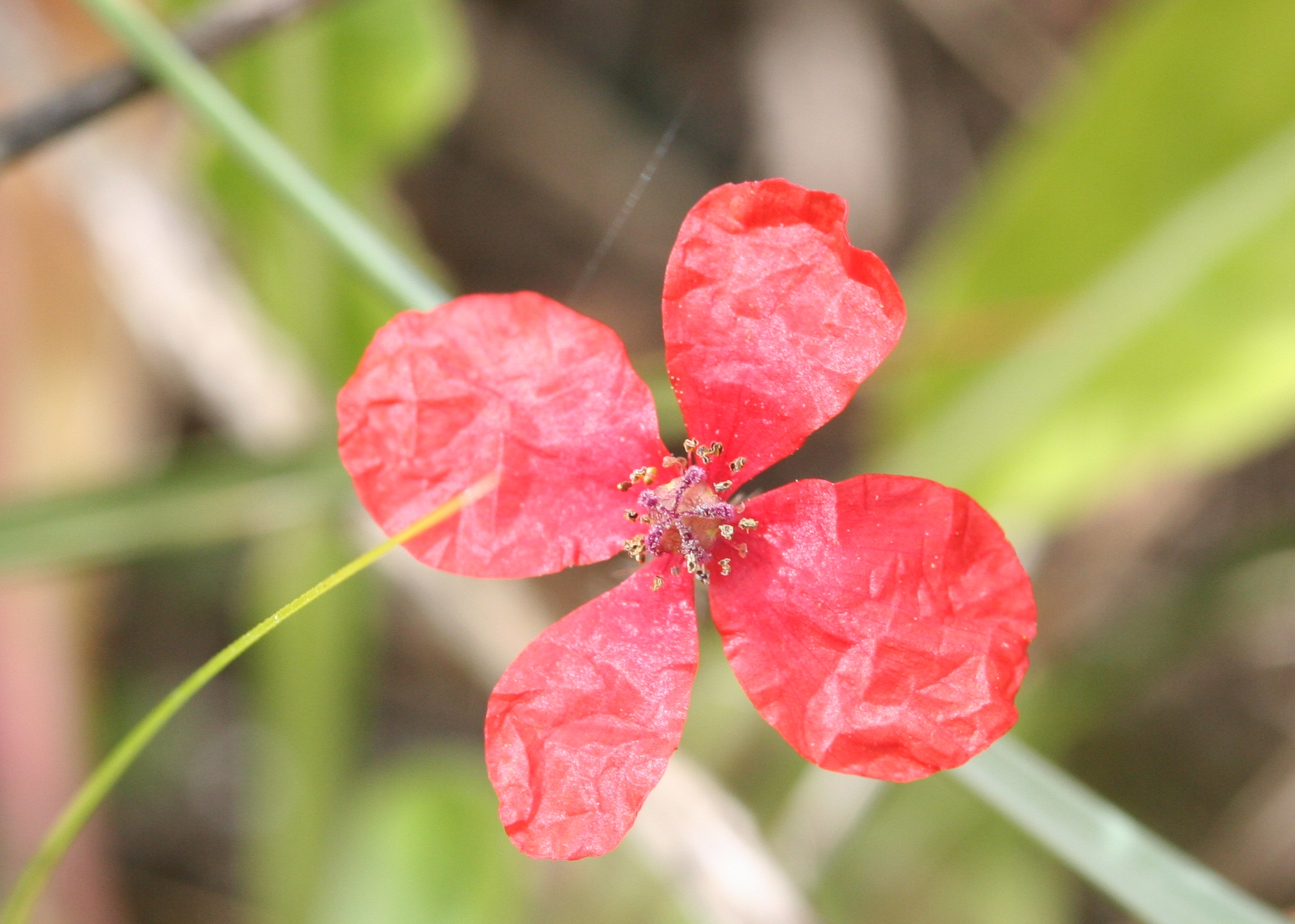 Papaver_argemone 4 June 2006 IJmuiden, the Netherlands